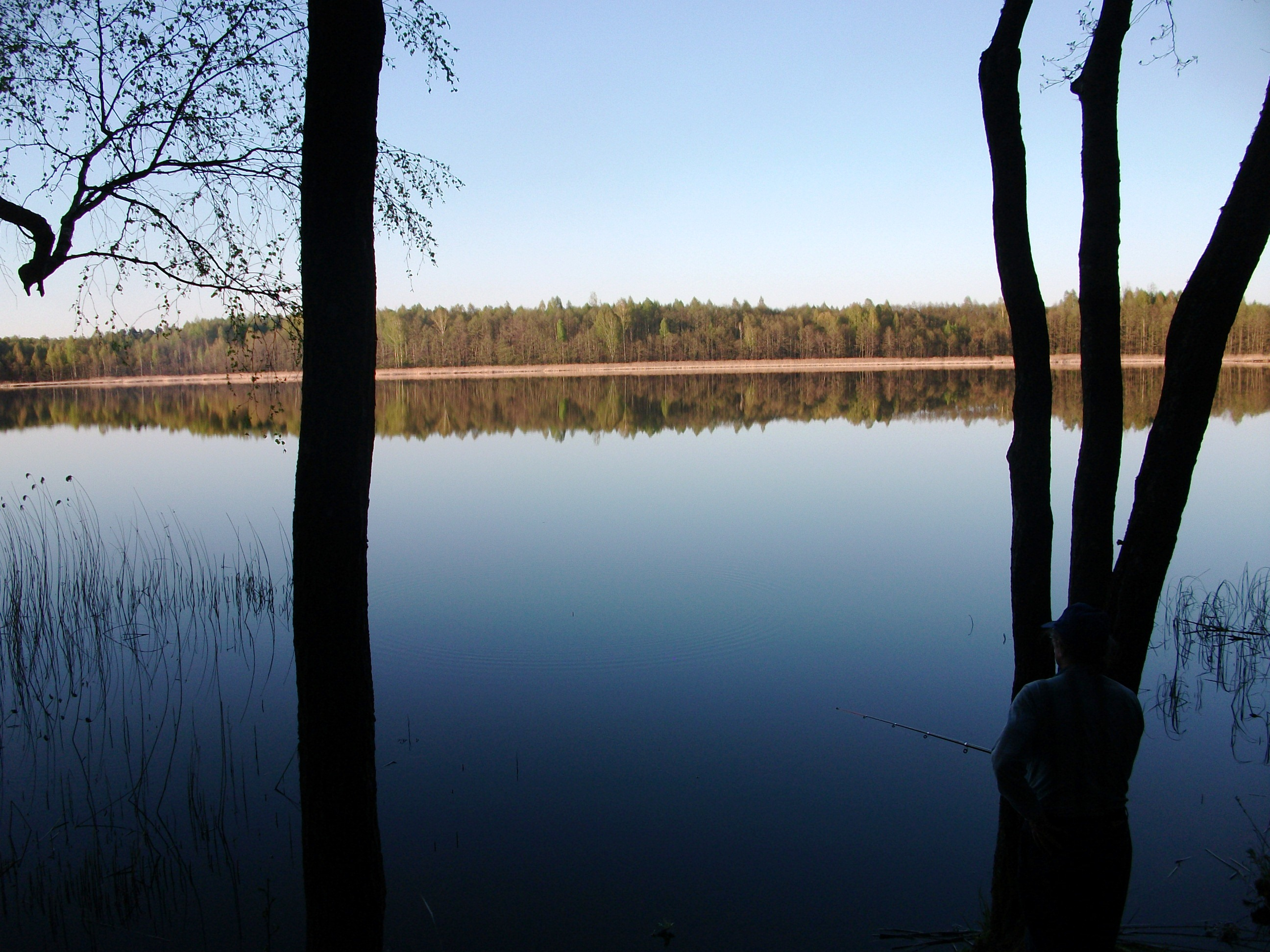 Galadzyanka Lake, Astraviec district, Belarus